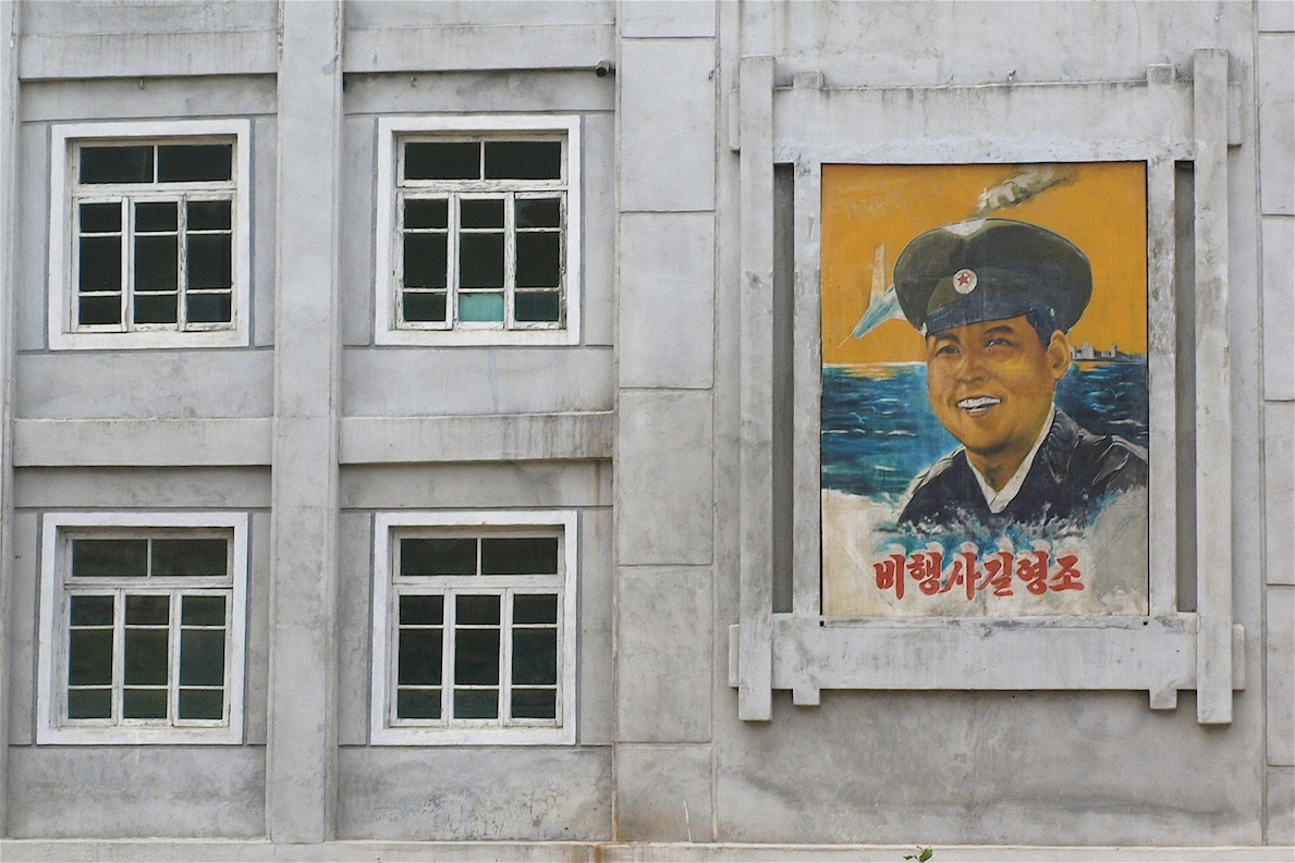 A Cinema at the Chonsam Cooperative Farm.